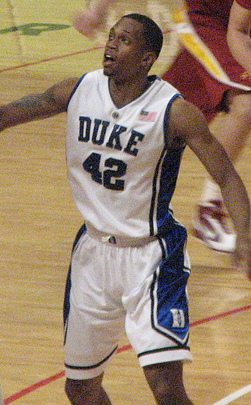 Craig Brackins of Iowa State Cyclones shoots over Lance Thomas of Duke.